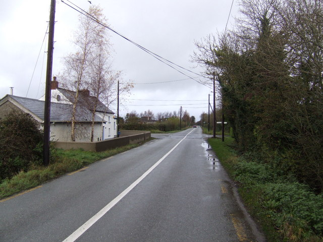 Betaghstown Cross Roads Looking south-west towards Prosperous, Co. Kildare.